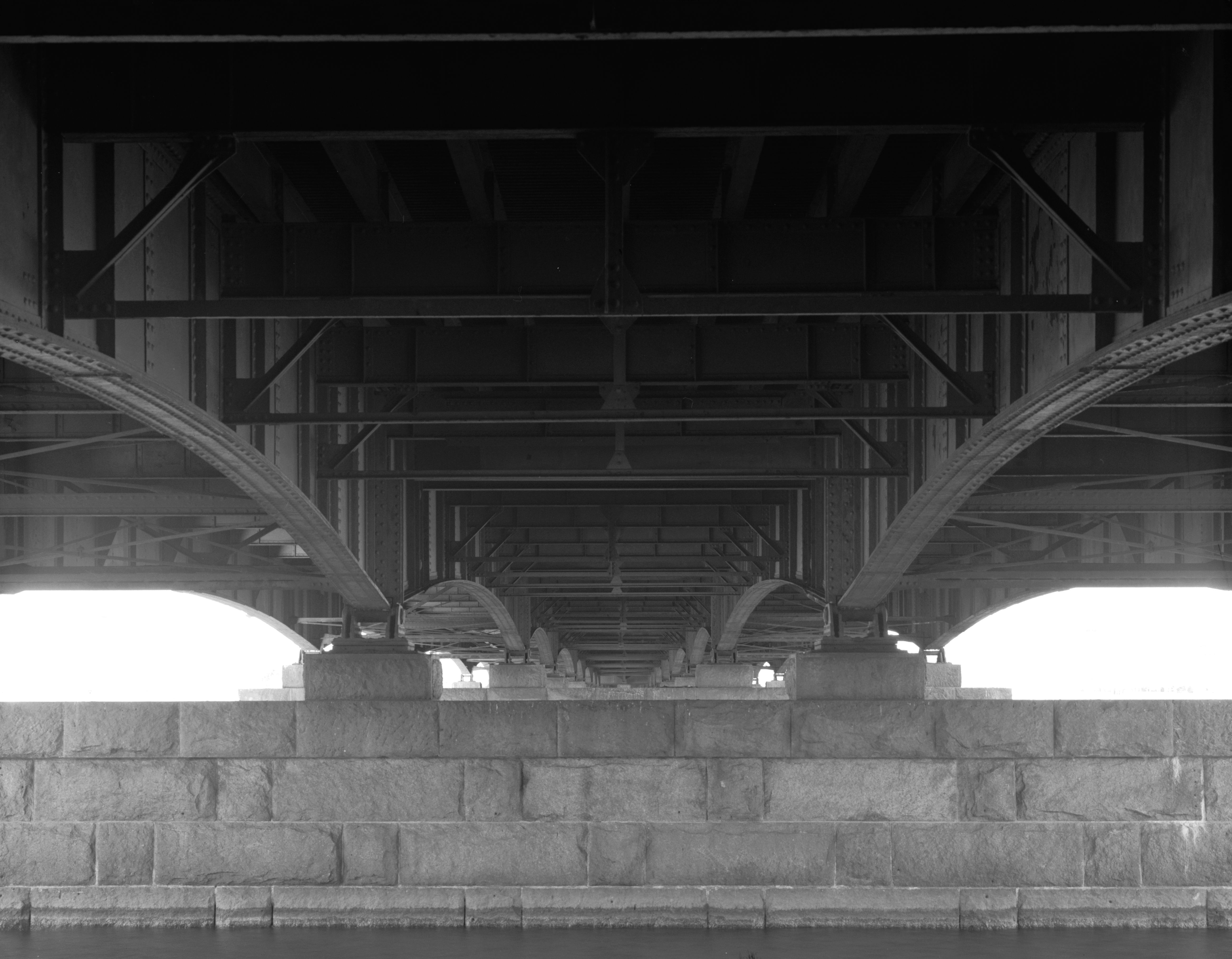 Underside of the Harvard Bridge in 1985, looking south from the Cambridge side. This is just before the bridge superstructure was replaced. This image shows how the structure was based on four longitudinal girders, as well as the bracing between them and other construction details.